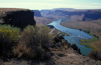 Photo of Snake River Birds of Prey National Conservation Area